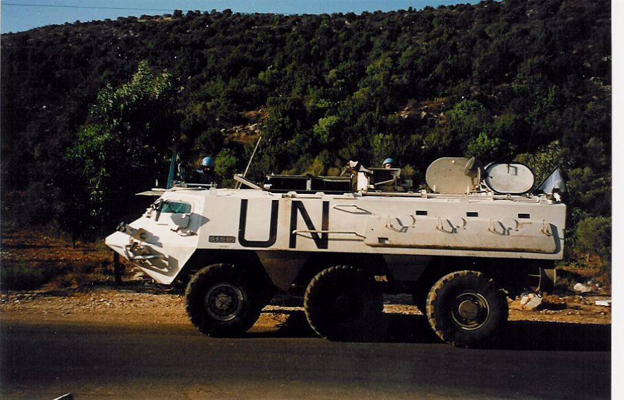 Sisu XA-180 in Ferdiss, South-Lebanon. Picture taken in 1998 by myself H. Dahlmo 15:53, 30 November 2005 (UTC).